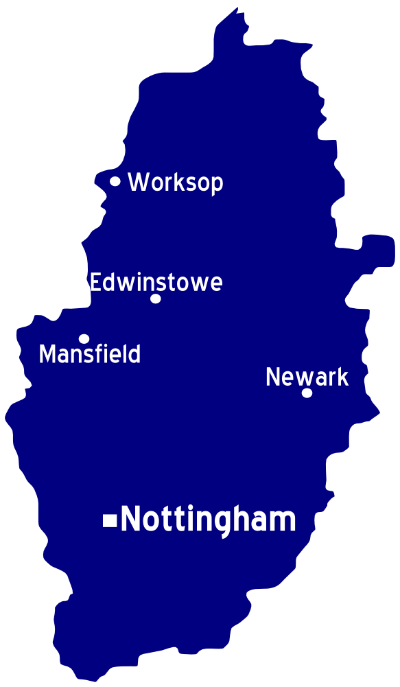 Map of Nottinghamshire Source: :Image:UK map.svg map: United Kingdom Map of: United Kingdom